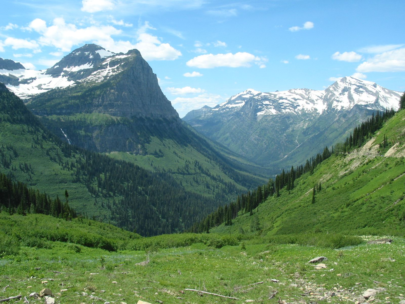 Glacier National Park in Montana, U.S. This picture was taken by me, BorisFromStockdale. This is great for reports! A great showing of v-shaped valleys. I love this picture.Nice picture boris haha! File:Glacier park1.jpg